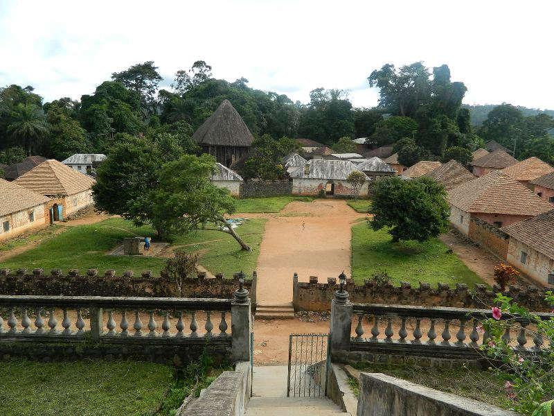 This is the front view of the Bafut Palace, in the North West Region of Cameroon. The Palace is built around the main arena. The building houses the queens and children of the King or Fon of Bafut. At the rear part of the palace is the Fon's building with a conical grass roof.